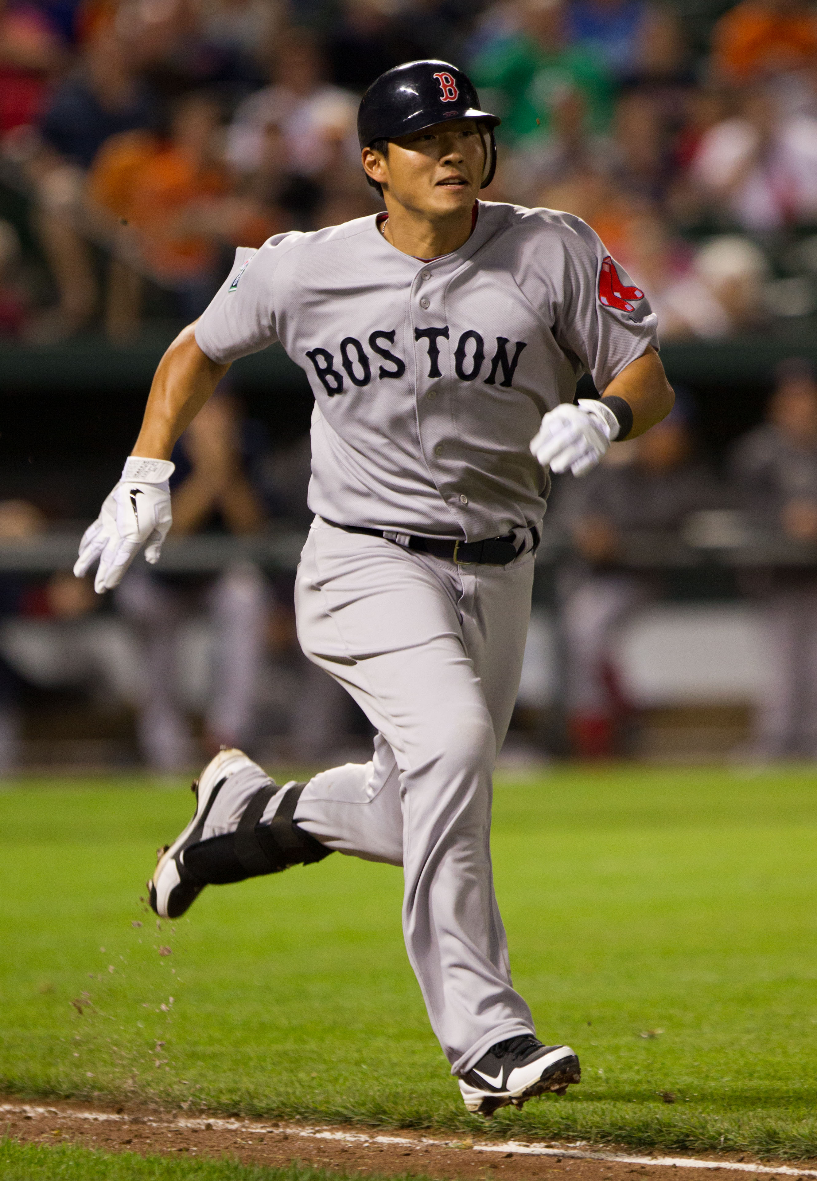 Che-Hsuan Lin